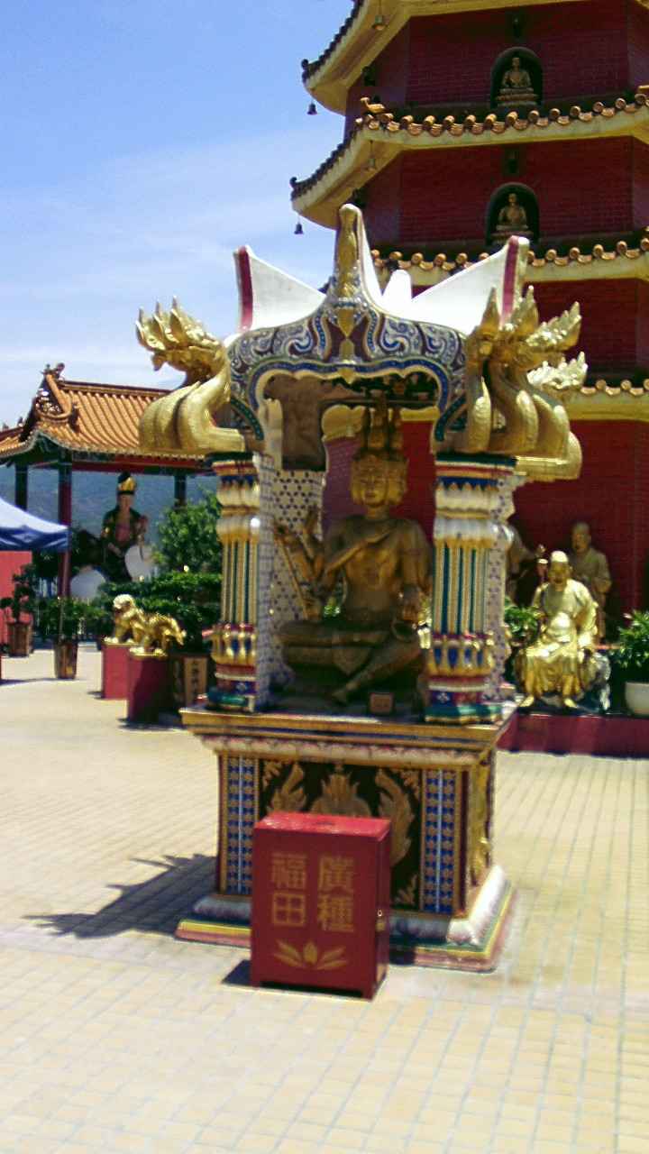 Phra Phrom status at 10000 Buddha Temple, Shatin, New Territories, Hong Kong